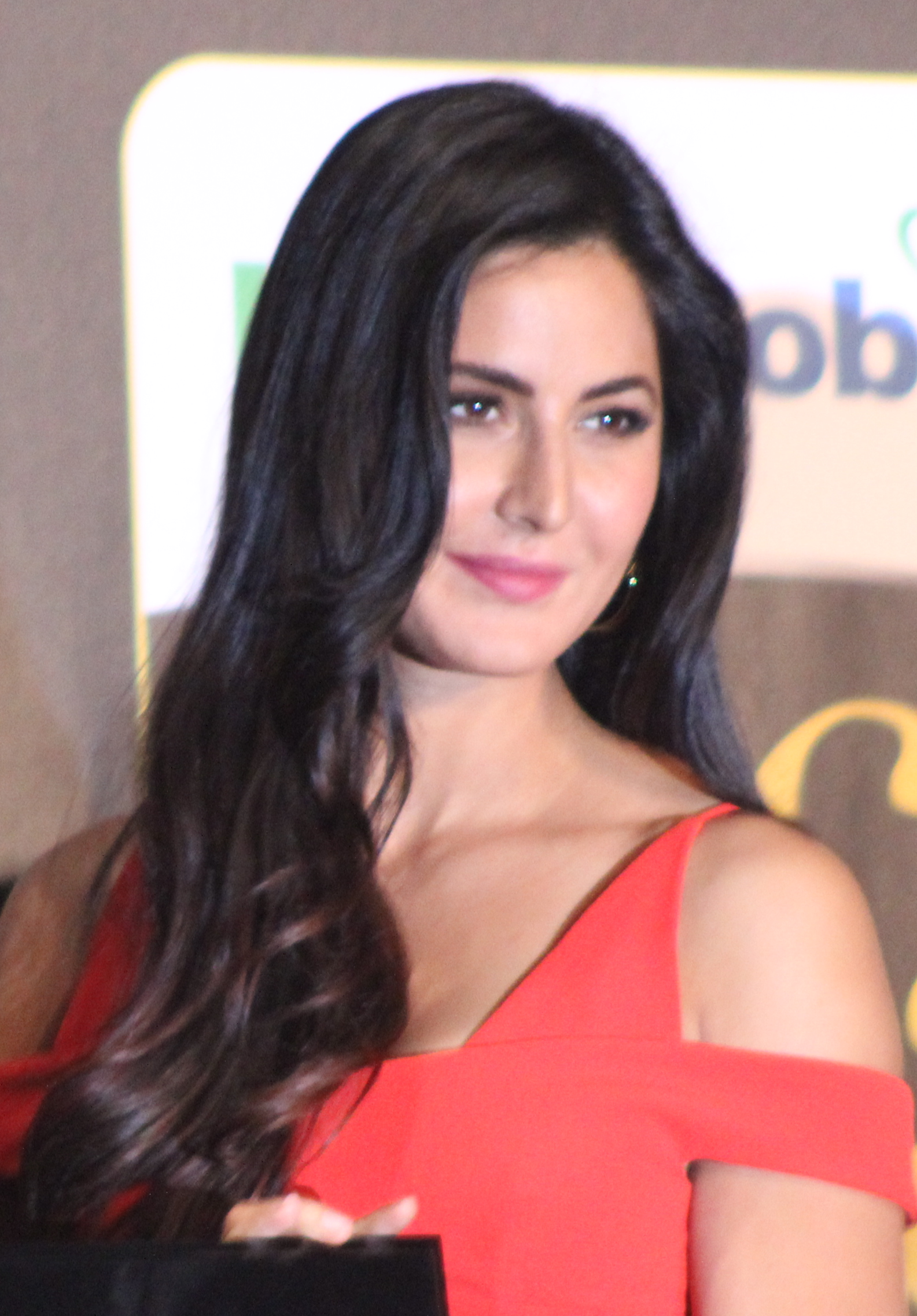 Katrina and Alia at IIFA 2017